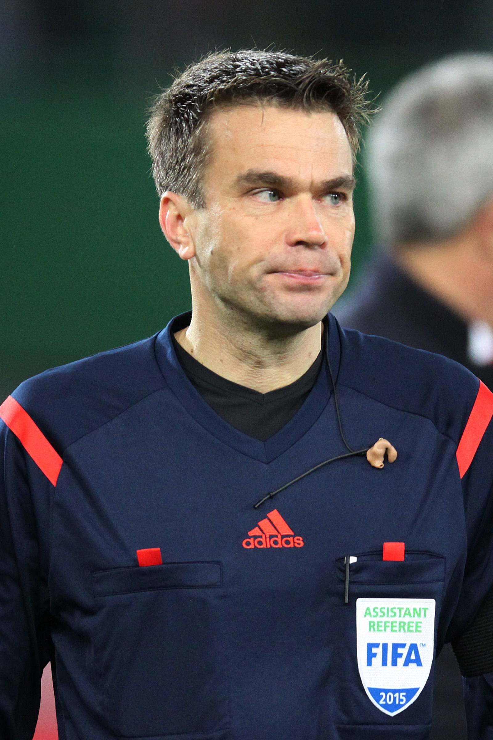 Friendly match – Austria (red shirts) vs. Switzerland (white shirts) 1-2 (1-2) – 2015-11-17 in Vienna, Ernst-Happel-Stadion – The photo shows assistent referee Holger Henschl (Germany).